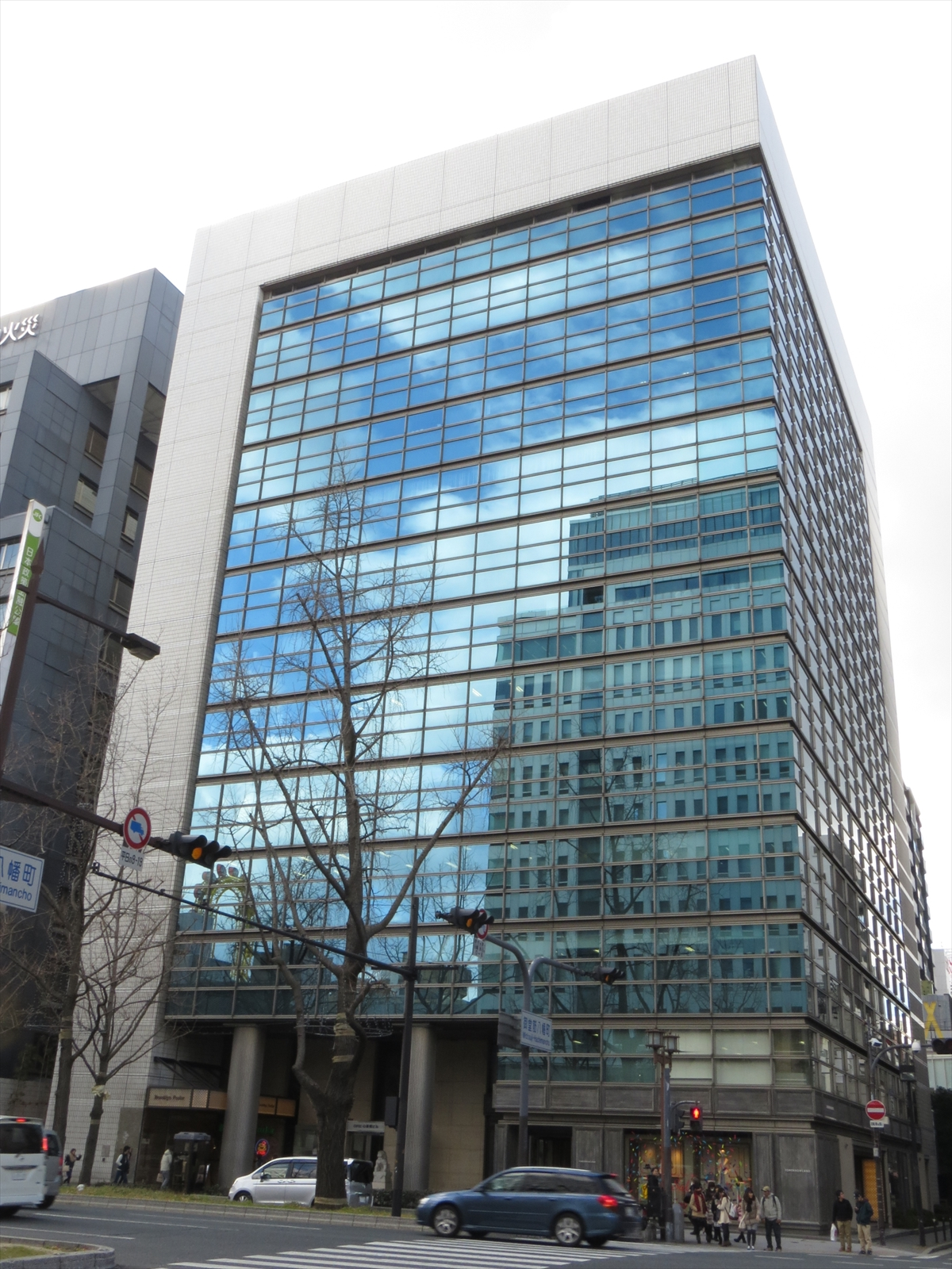 ORE Shinsaibashi Building.